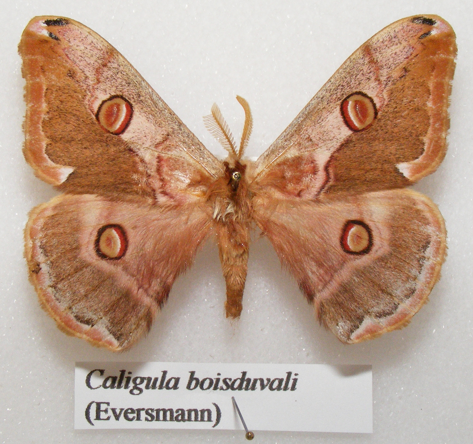 Caligula boisduvali adult male from the Texas A&M University Insect Collection